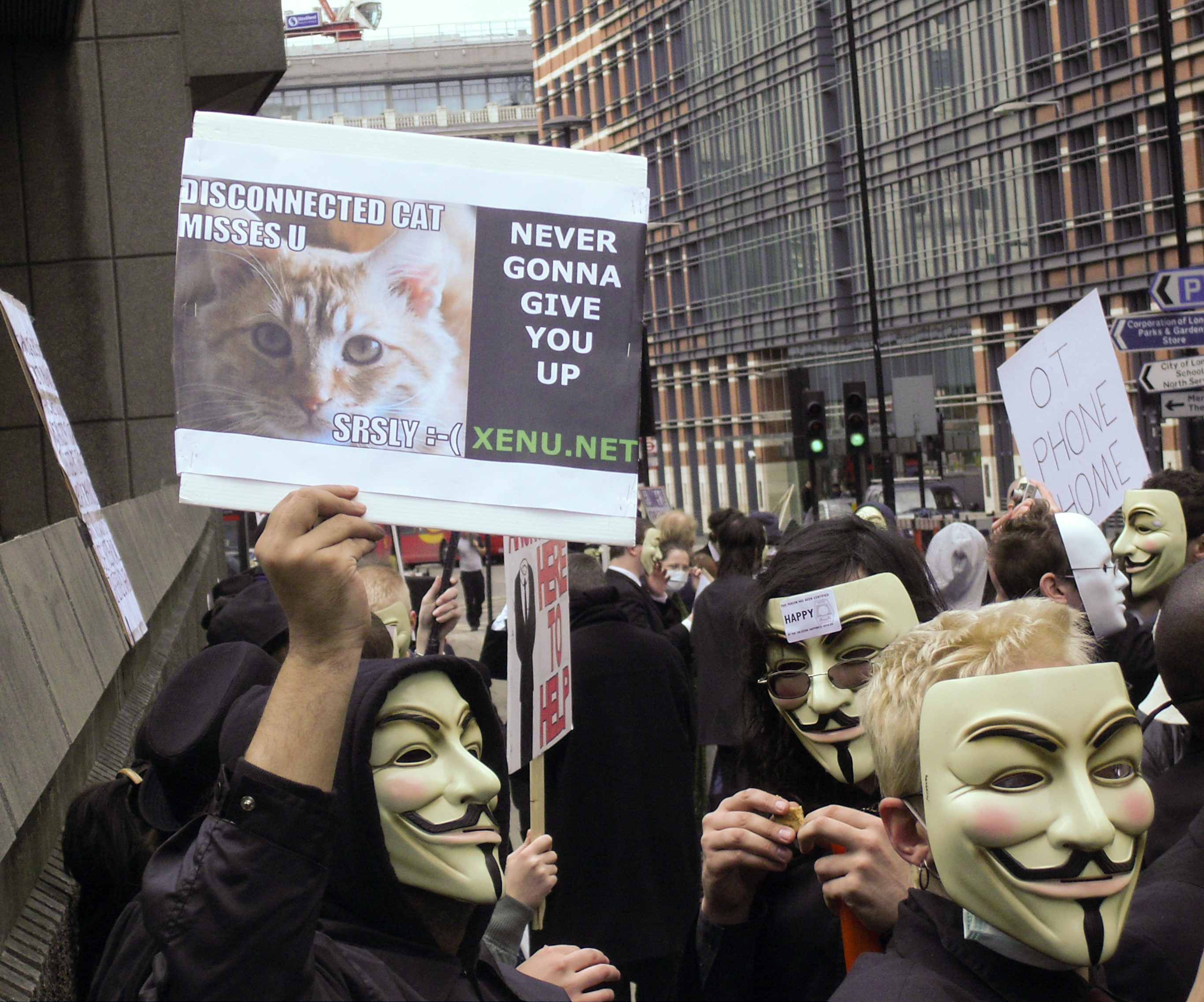 Signs and protesters at Queen Victoria Street